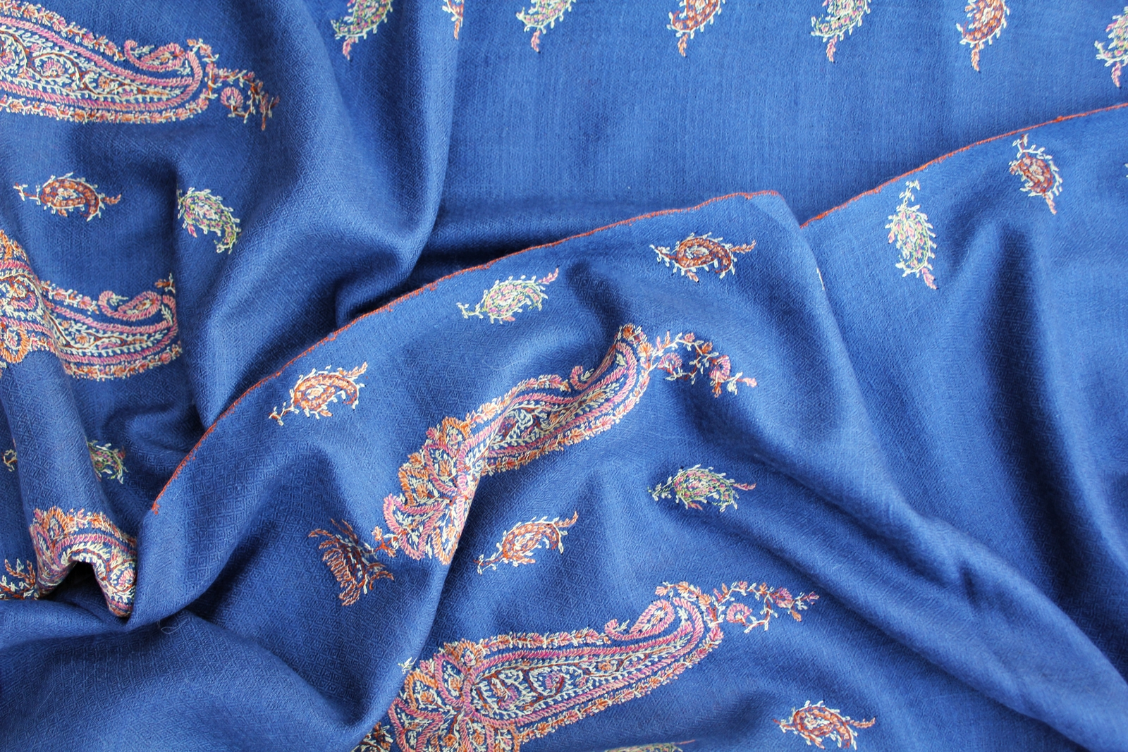 For more information and right to employ picture for any use, reach us at